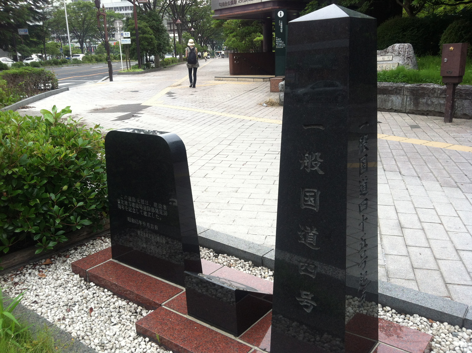 The mile stone of Sendai City, in front of Koutoudai Kouen Park.